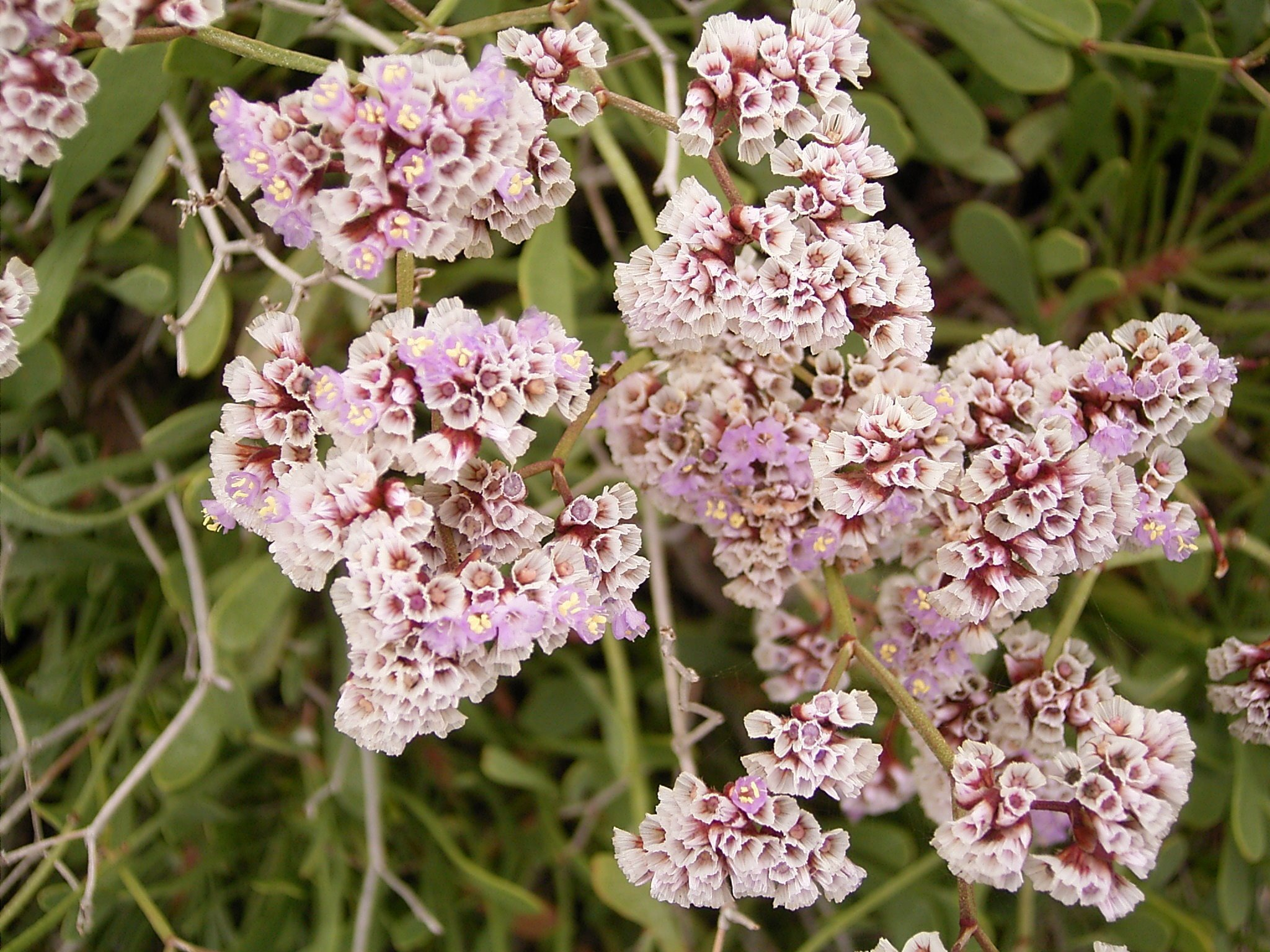 Limonium pectinatum growing at Los Cancajos, La Palma, Canary Islands